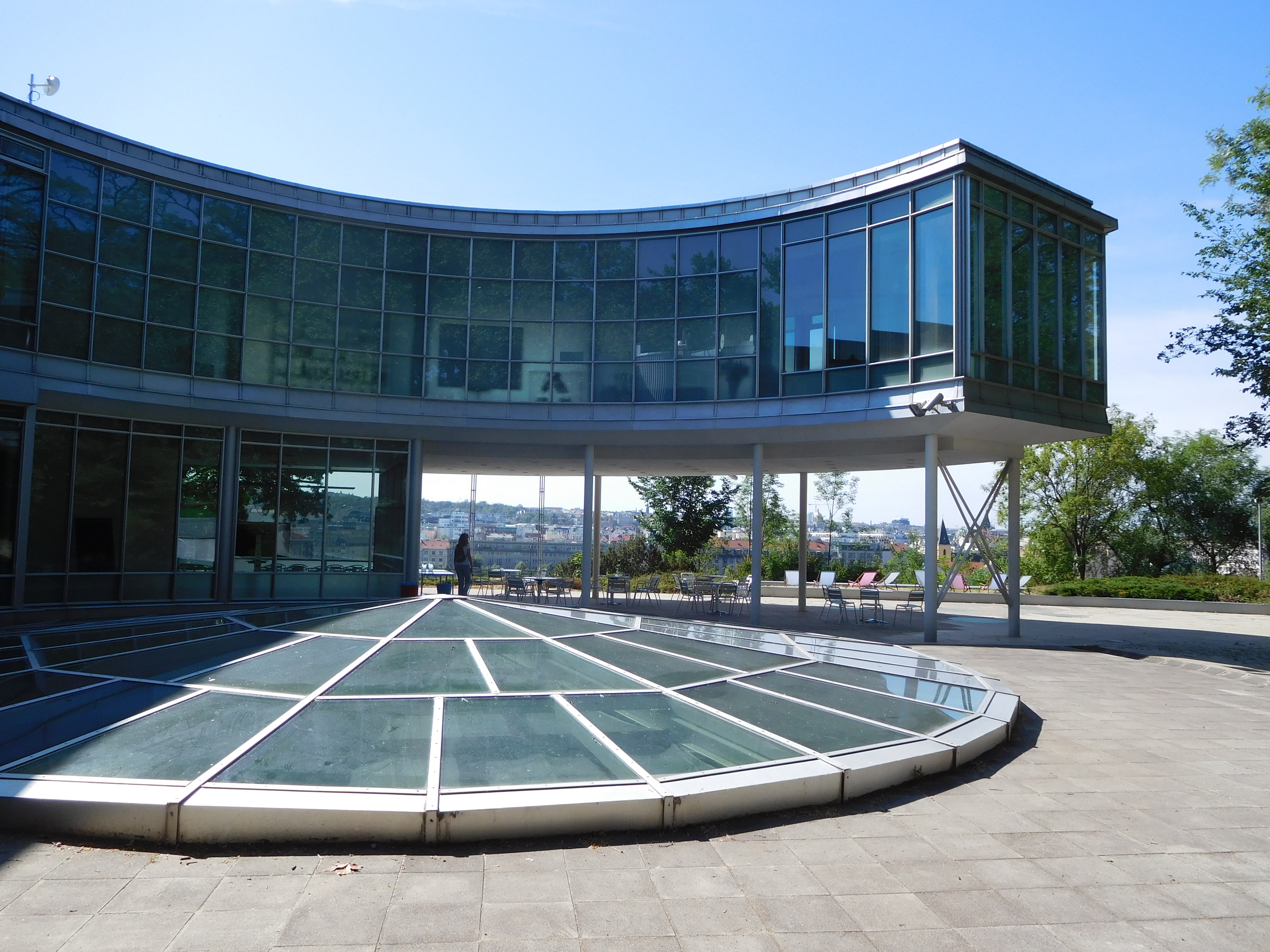 Czech Expo 58 Pavilion in Prague - northwestern facade